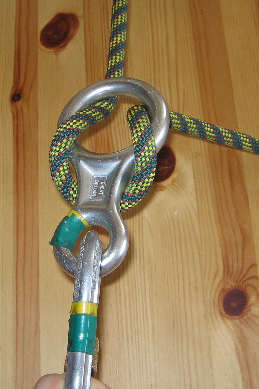 A Figure Eight descender, released. Uploaded by Stewart Adcock, 29 May 2005. Stewart Adcock's website